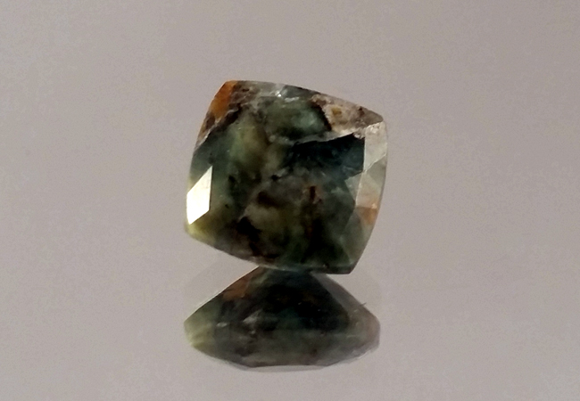 Faceted Chromian Lawsonite, 1.50 ct, from Greece